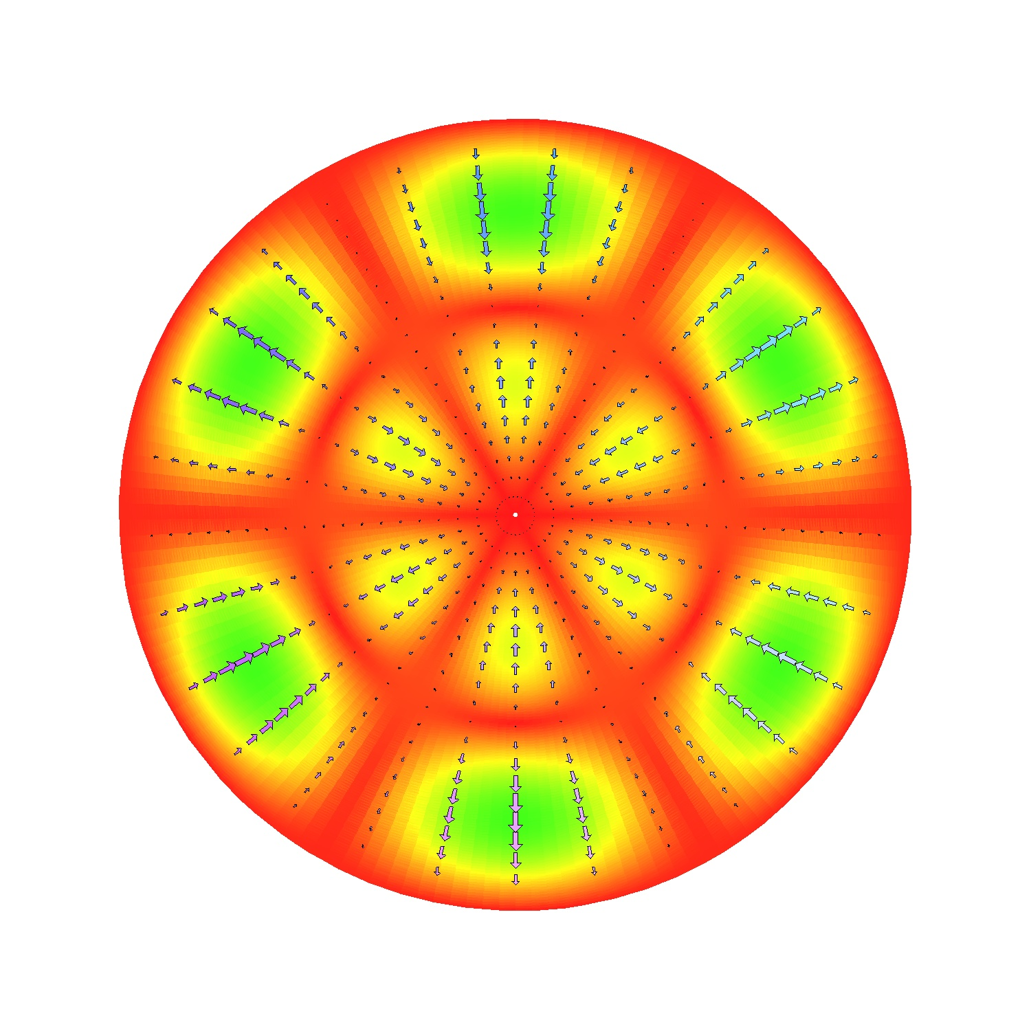 Plot of E and H fields on the TEnl mode defined by n and l.